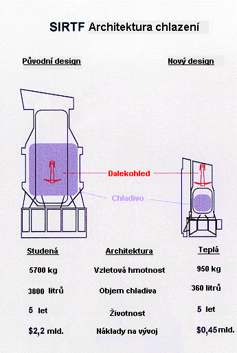 Cryogenic Architecture of the SIRTF